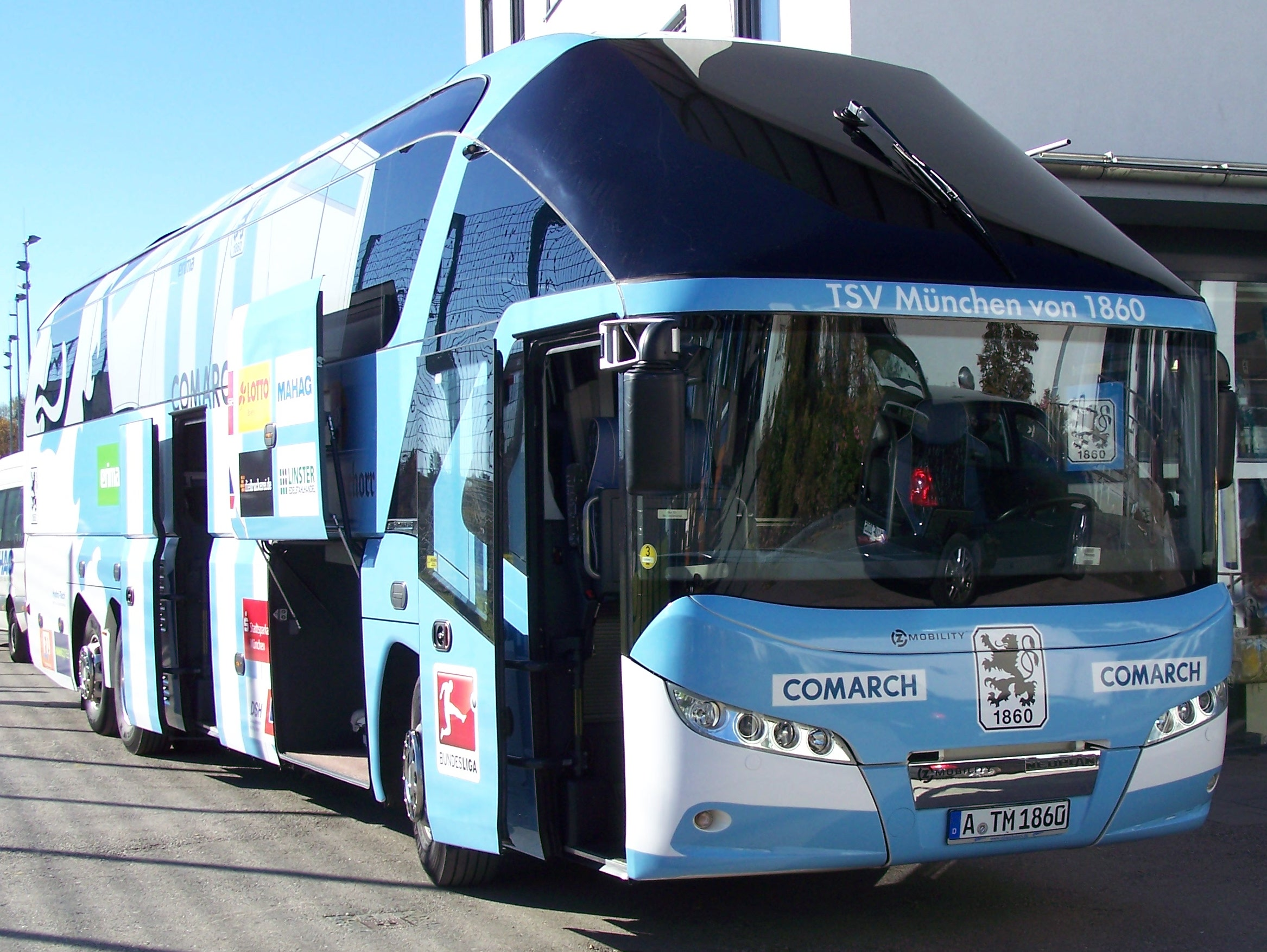 bus of tsv 1860 münchen